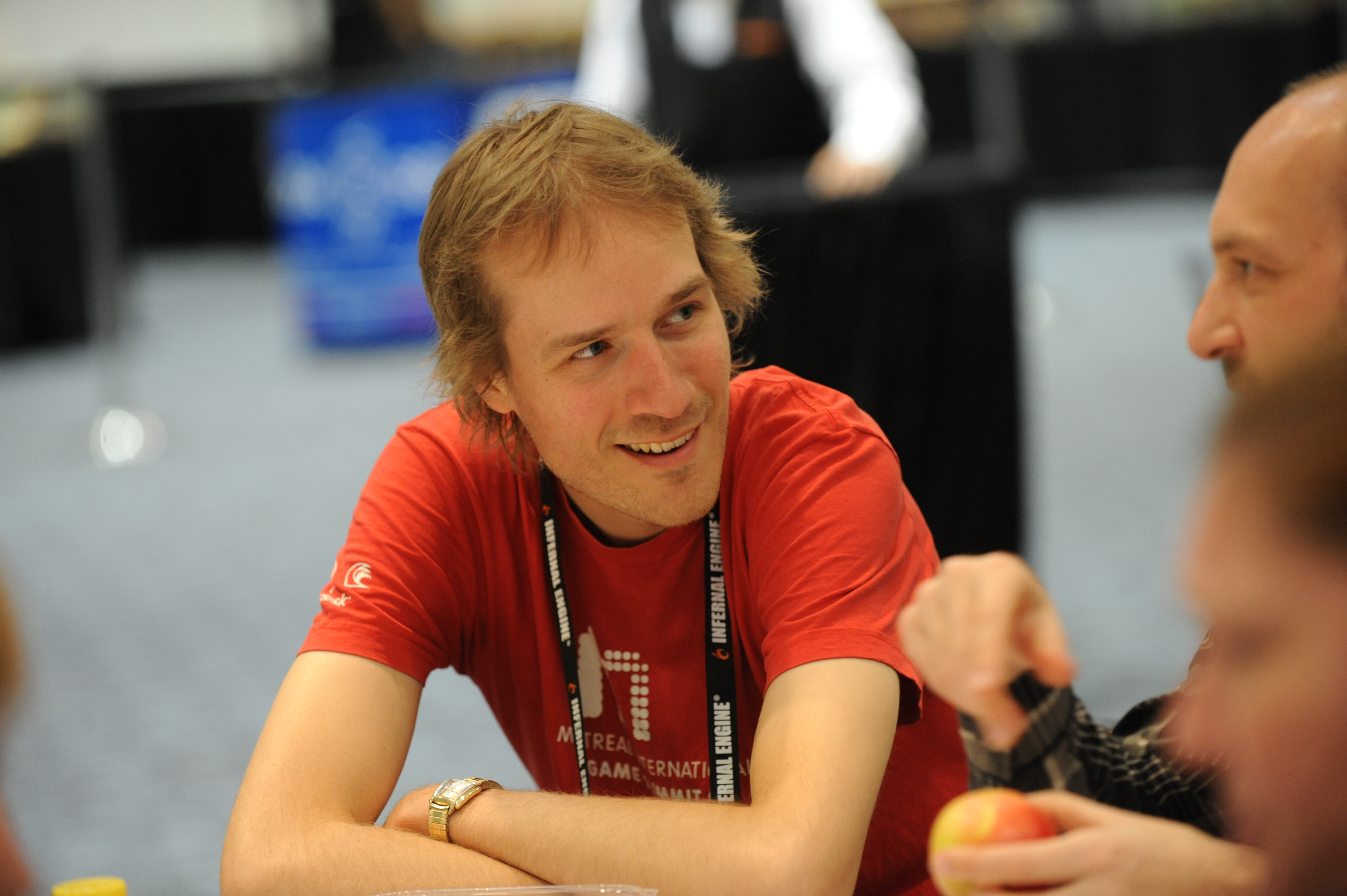 Jason Rohrer at the Game Developers Conference in 2011 (second day), North Hall.